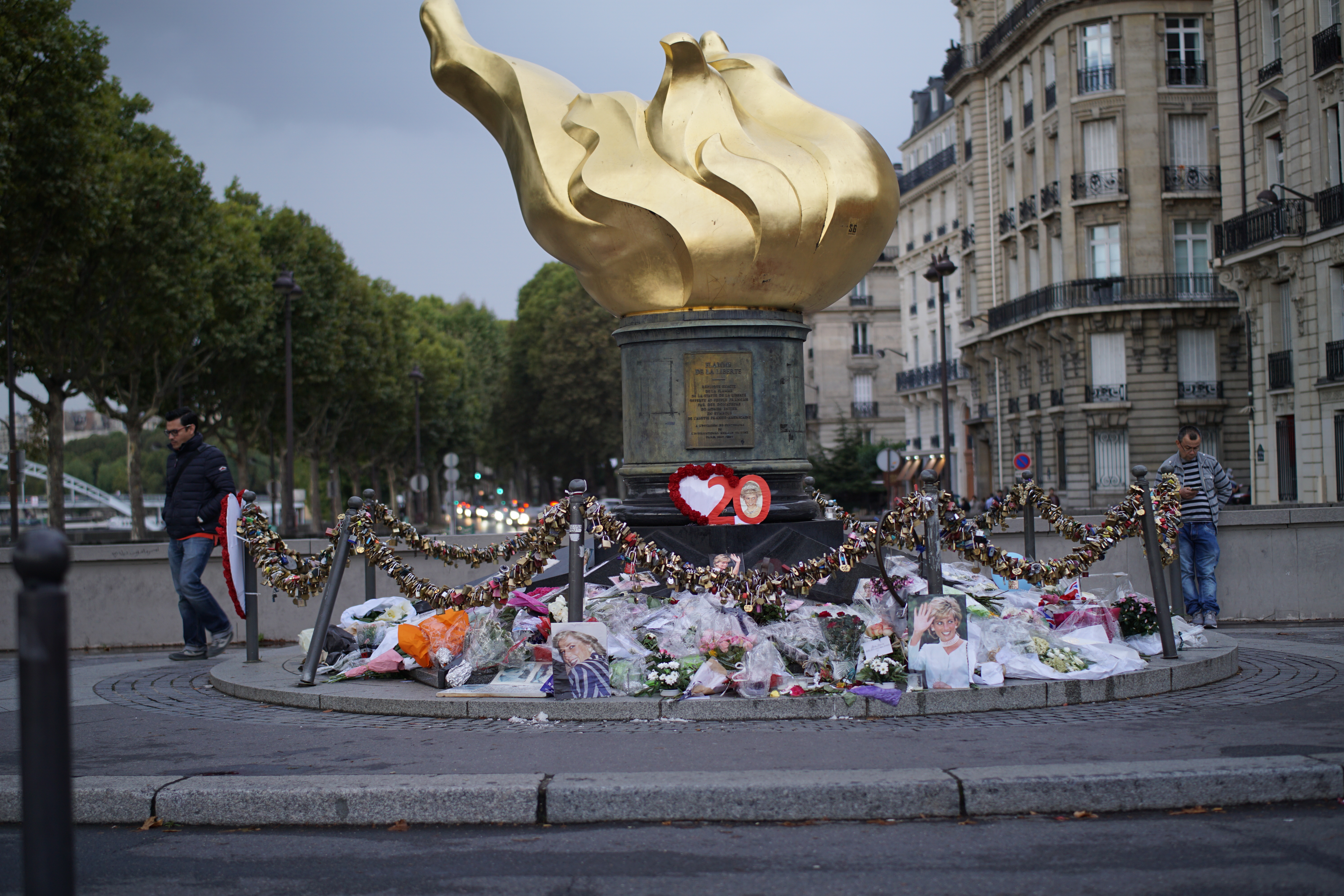 Picture taken almost exactly 20 years after Princess Diana's death.